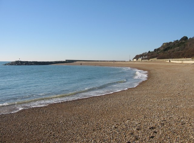 Shingle Beach In the far distance the relatively new rock headland and concrete walkway can be seen. Looking towards Sandgate & Hythe.